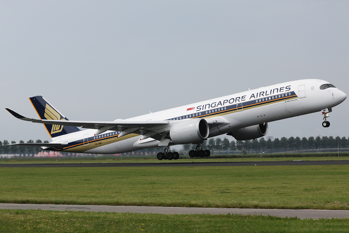 9V-SMD Singapore Airlines Airbus A350